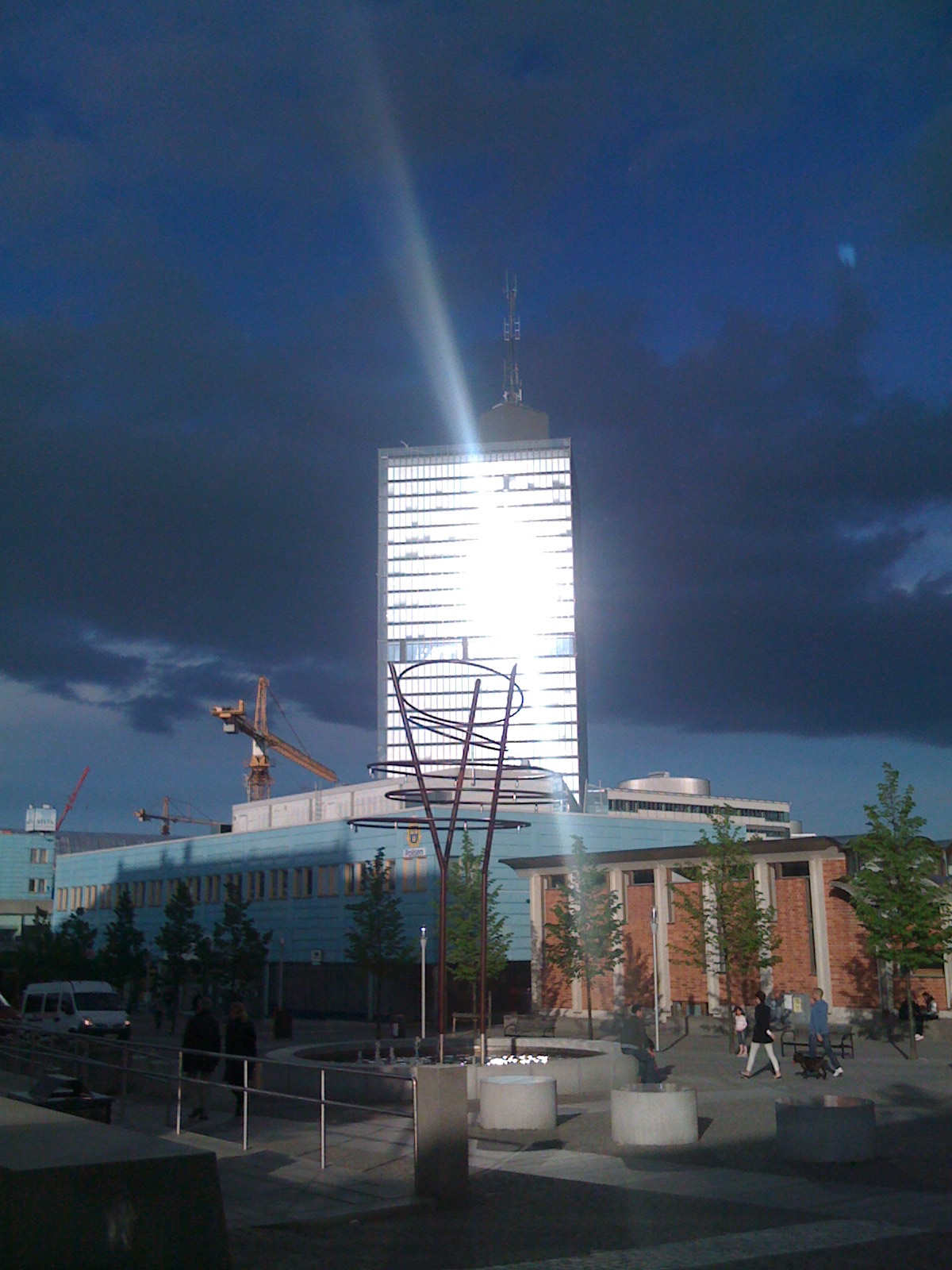 This is Swedens second tallest building as of this date.